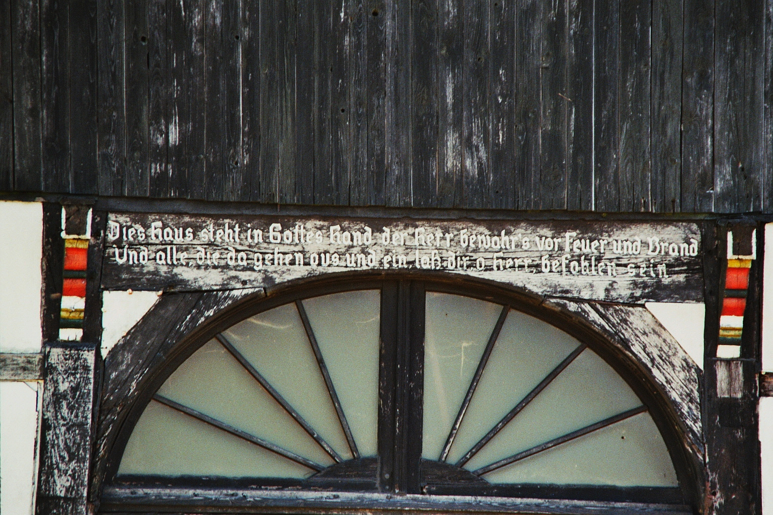 Brenninckhof, an old farmhouse, in Mettingen-Wiehe, Kreis Steinfurt, North Rhine-Westphalia, Germany.